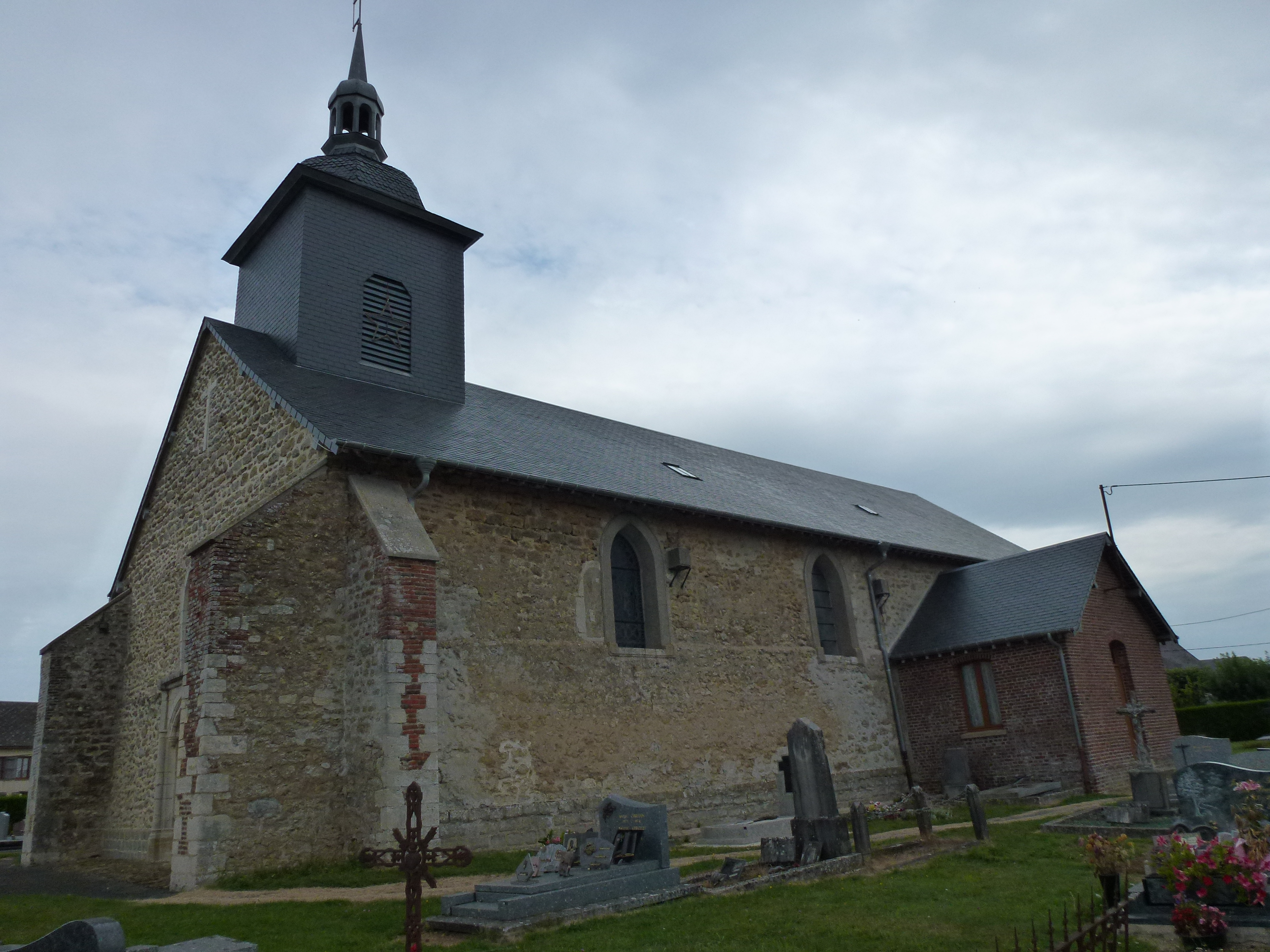 La Romagne (Ardennes) église Saint-Jean